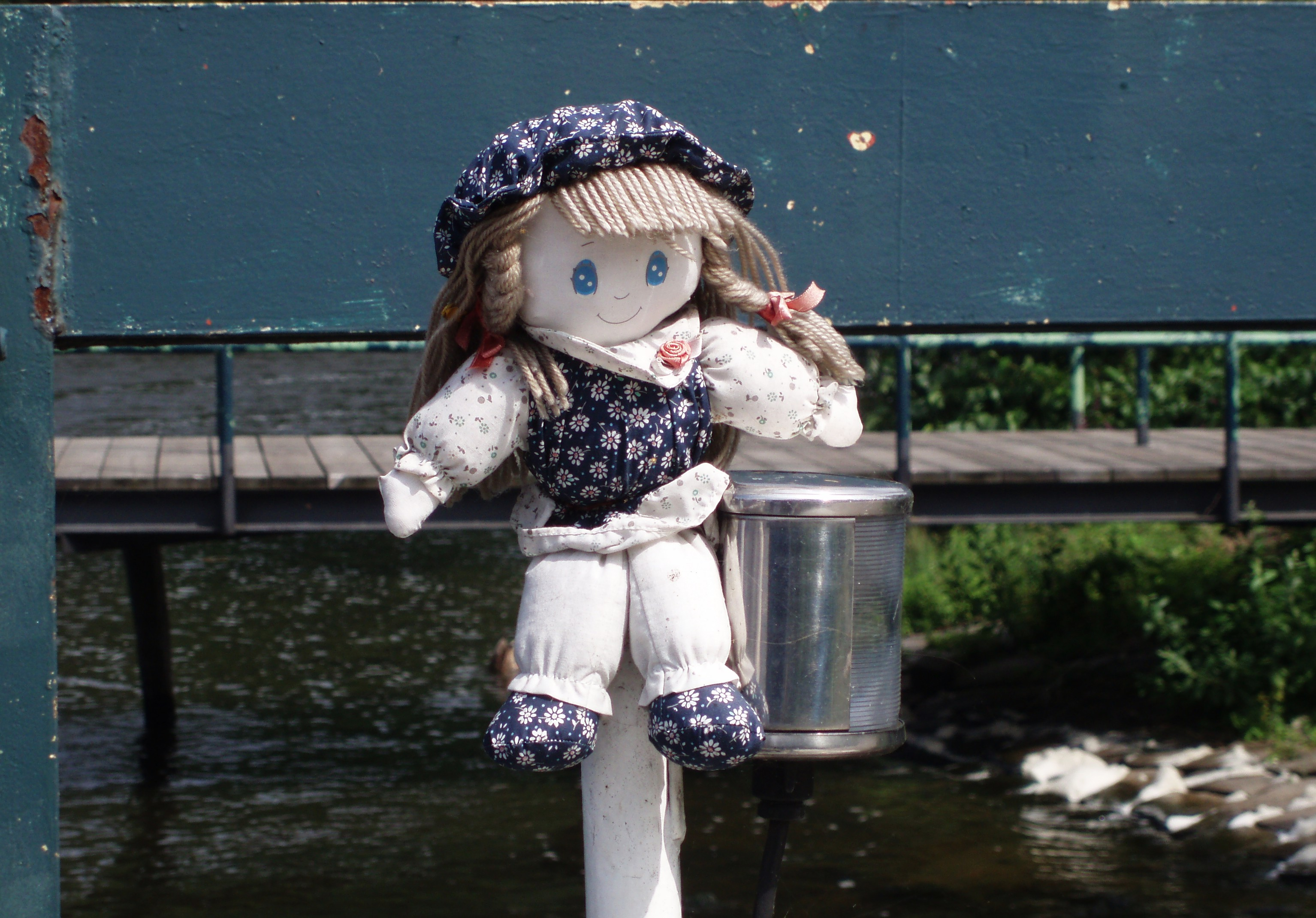 Doll tied on lamp post of river boat. Pfaueninsel, Berlin.